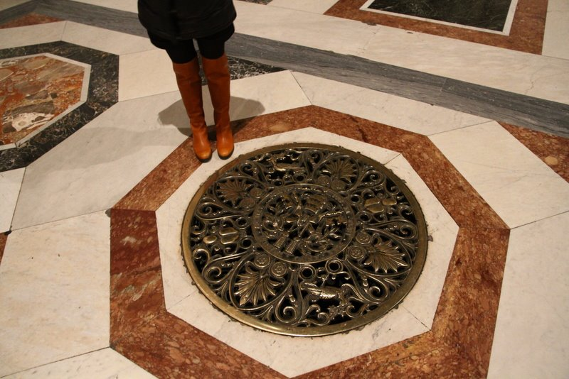 Air vents for the crypt in St. Peter's Basilica